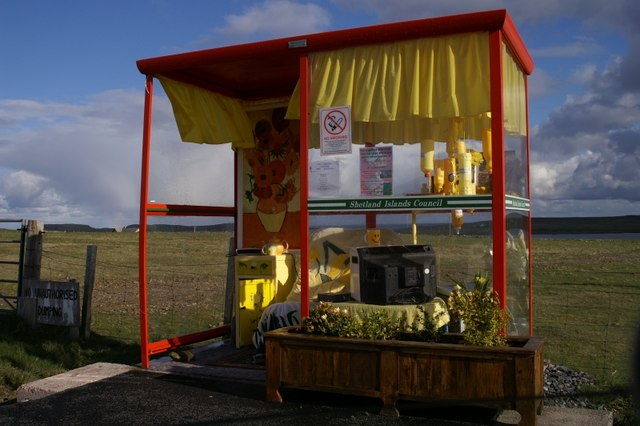 This Year's Colours, near to Baltasound, Shetland Islands, Great Britain. Bobby's Bus Stop in 2007 livery.